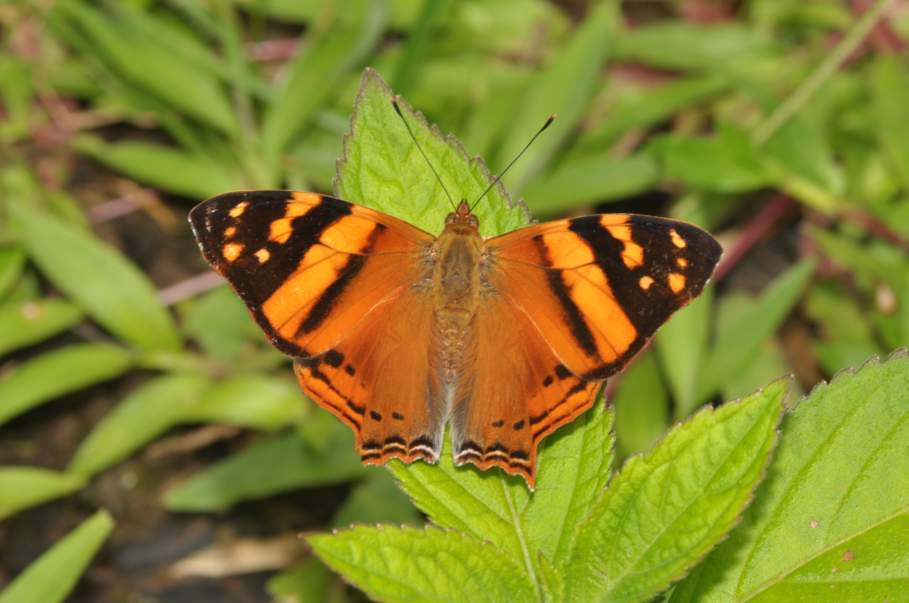 ID based on pictures from Thanks to Bigal River Conservation Project